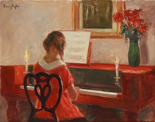 Girl at the piano